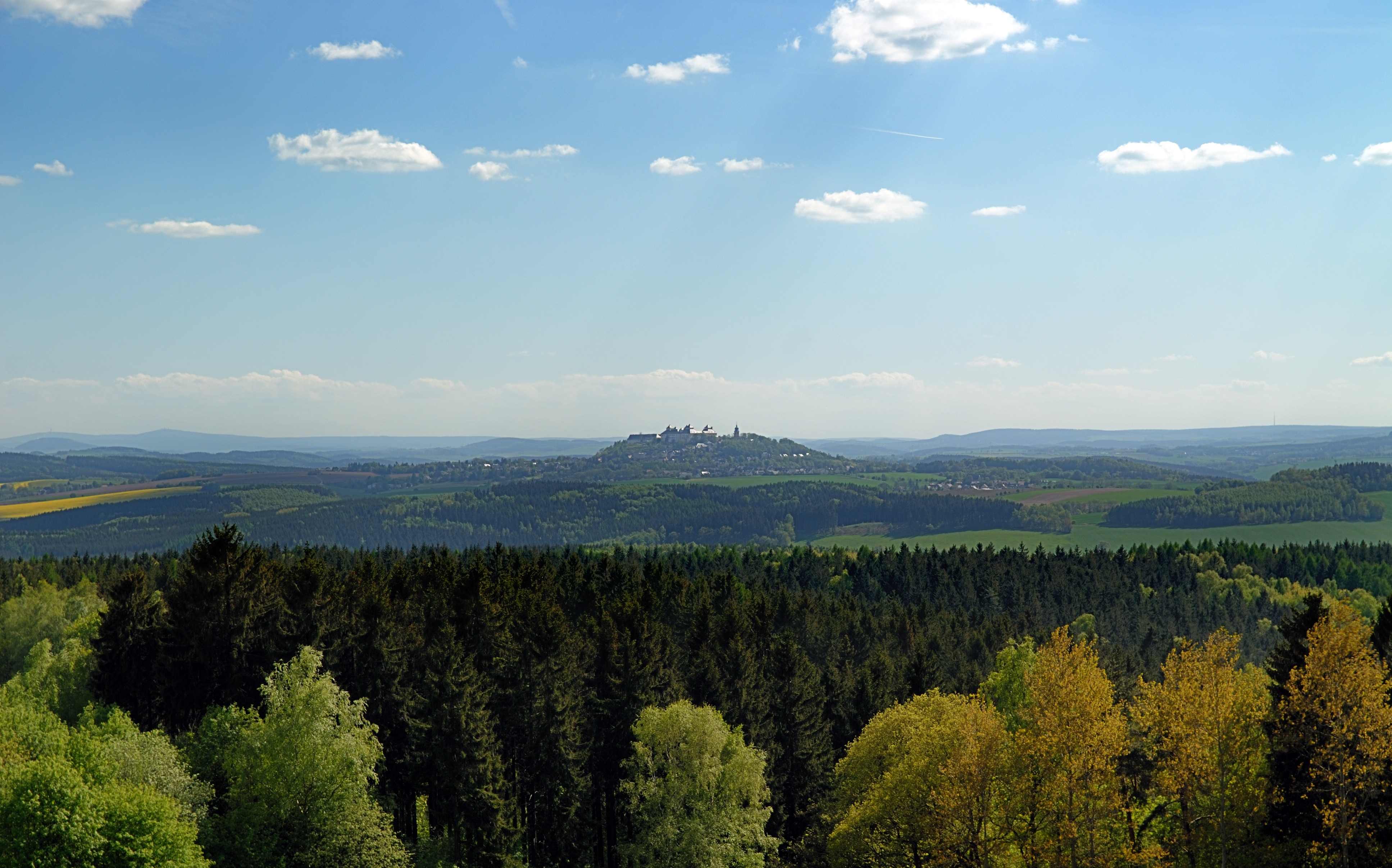 This image shows the hunting lodge Augustusburg with the surrounding landscape. It has been made of two differently exposured takes that were combined using HDR techniques and has been taken in a distance of 7.6 km.